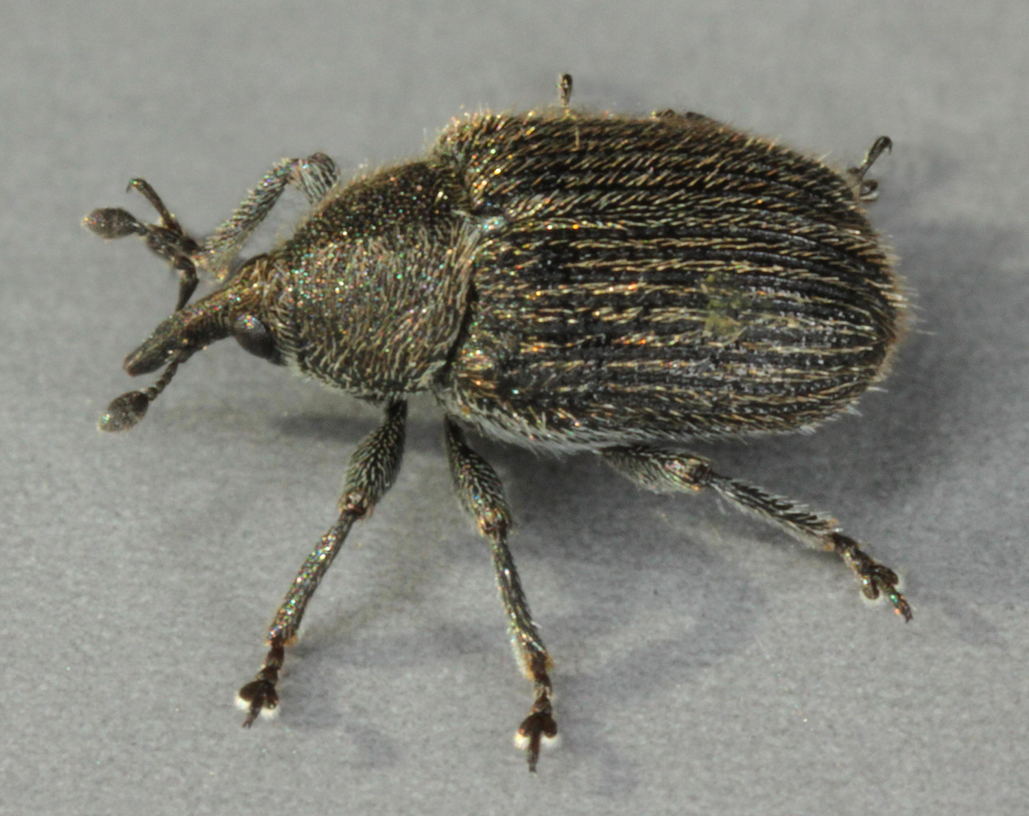 Rhinusa antirrhini, Deeside, North Wales, July 2011